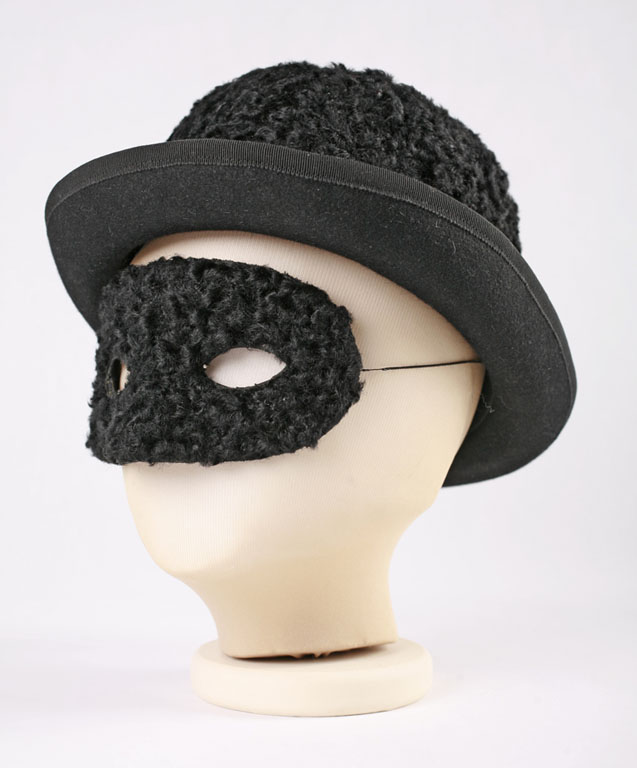 An Elton John stage hat and mask in the permanent collection of The Children’s Museum of Indianapolis.